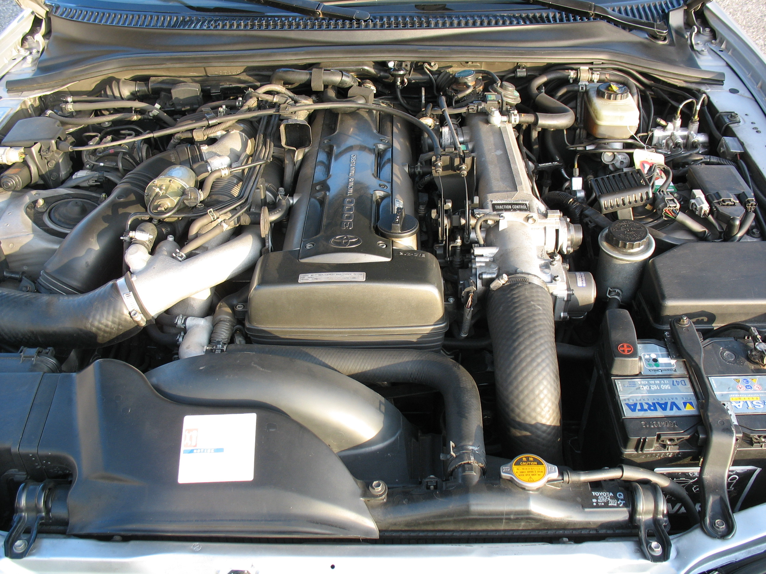 Toyota Supra MKIV Turbo Engine Bay